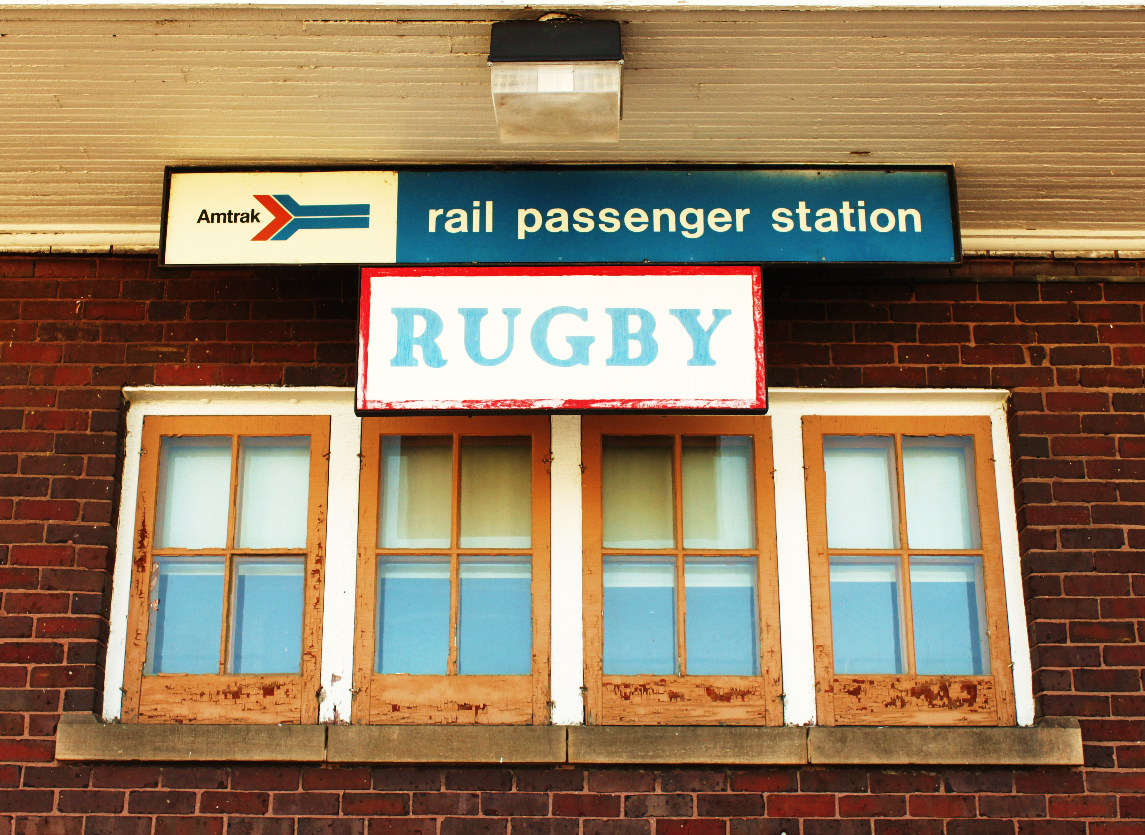 The Rugby Amtrak station was built in 1907 in Rugby, North Dakota. Photo by Peter Rimar.